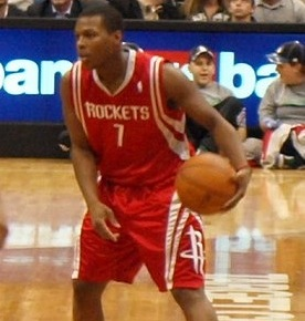 Kyle Lowry of the Houston Rockets